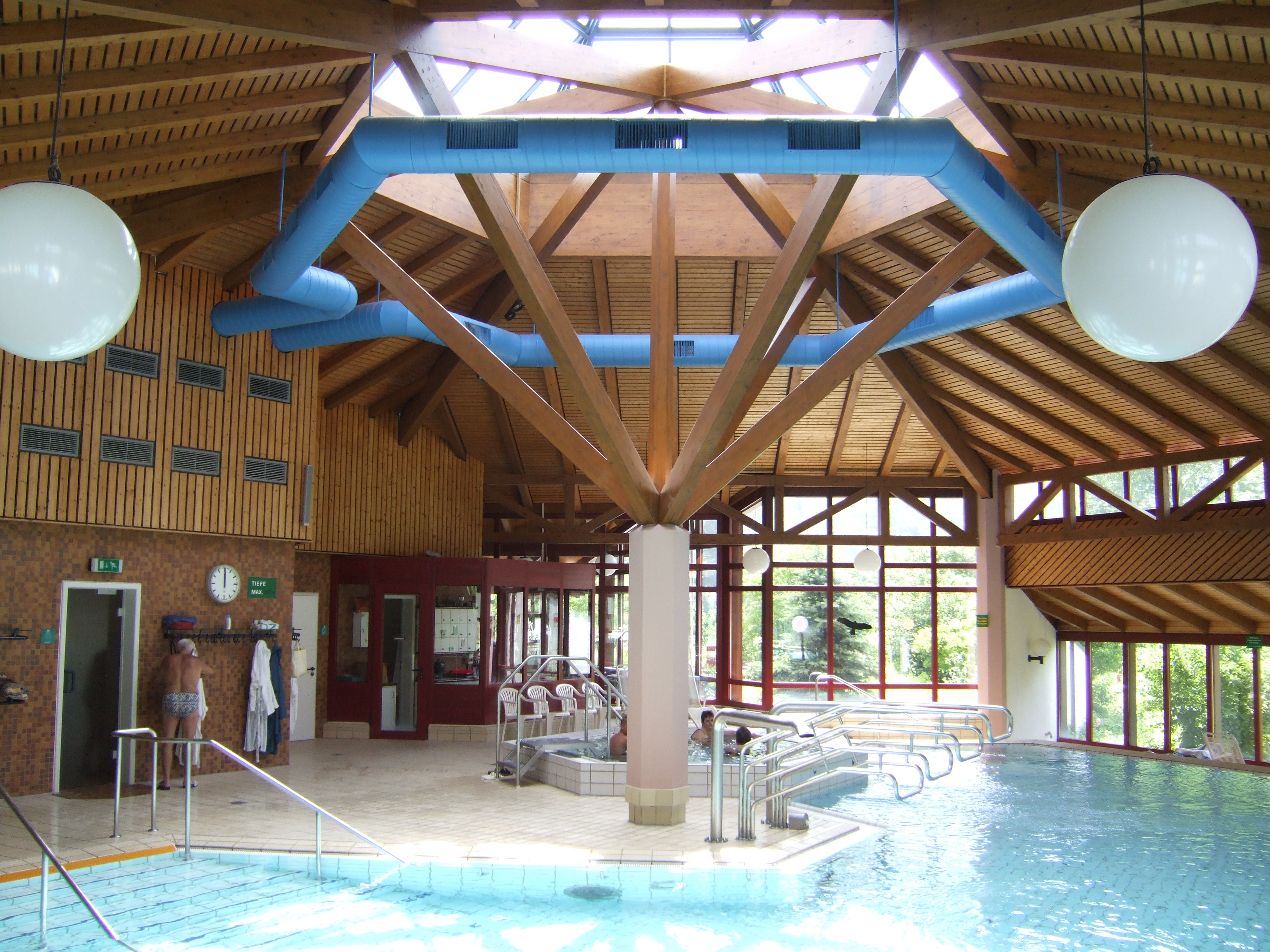 Niedernhall: saline swimming bath